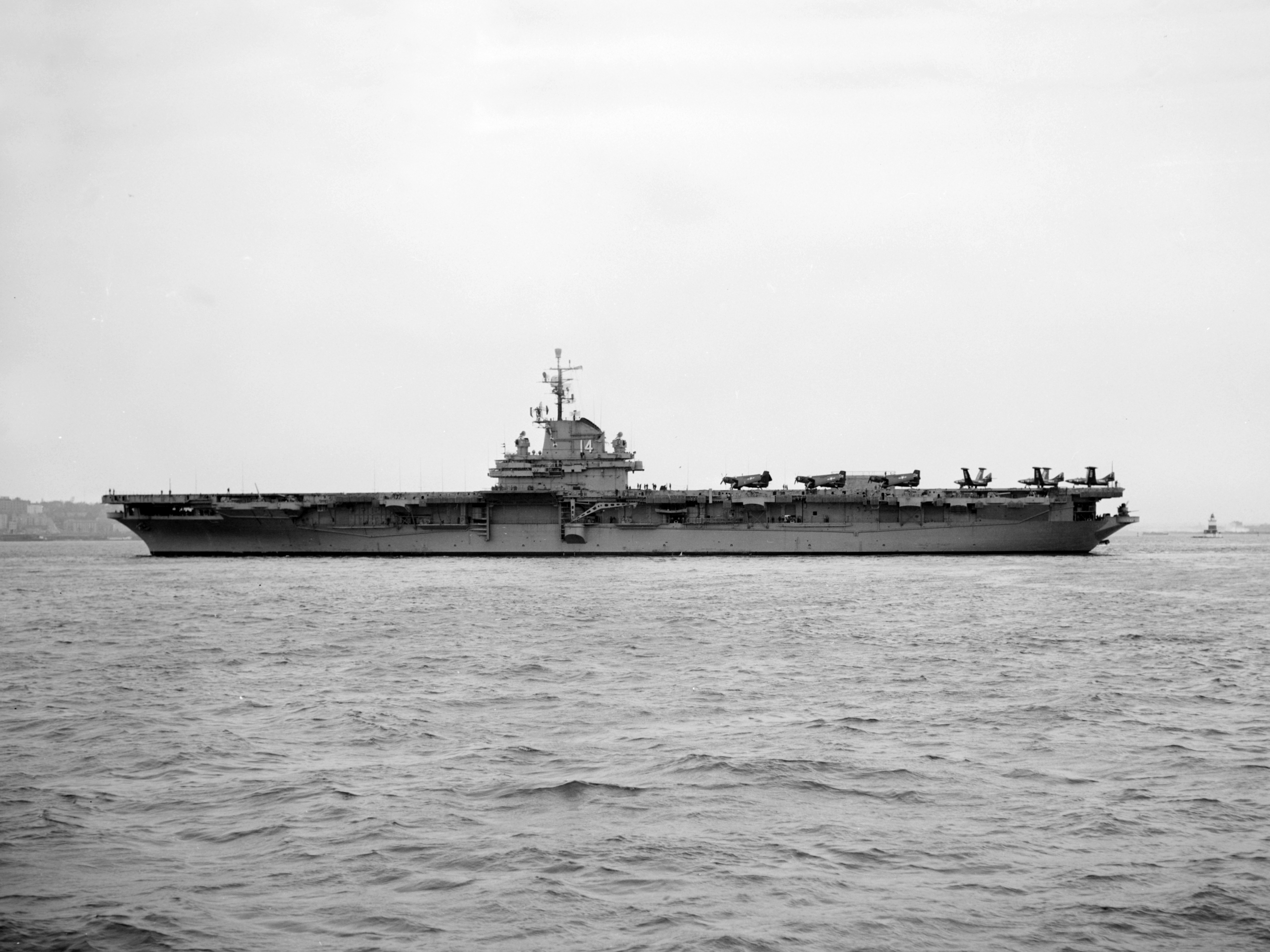 The U.S. Navy aircraft carrier USS Ticonderoga (CVA-14) following her SCB-27C modernisation at the New York Naval Shipyard (USA), circa in 1954. Ticonderoga was recommissioned on 11 September 1954. On deck are three Grumman AF-2W Guardian from Anti-Submarine Squadron 27 (VS-27) "Pelicans" and three Grumman F9F Panthers.